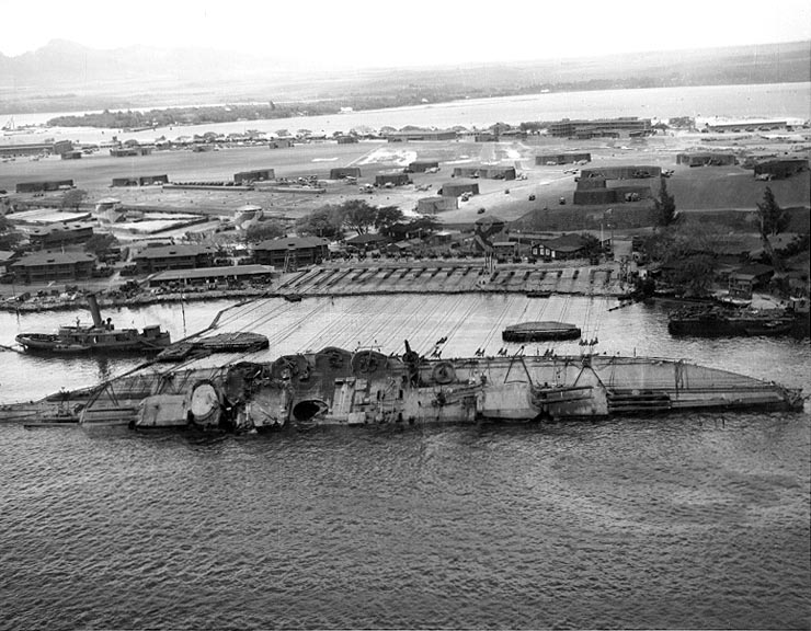 Ship righted to about 30 degrees, on 29 March 1943, while she was under salvage at Pearl Harbor. She had capsized and sunk after receiving massive torpedo damage during the 7 December 1941 Japanese air raid. Ford Island is at right and the Pearl Harbor Navy Yard is in the left distance.